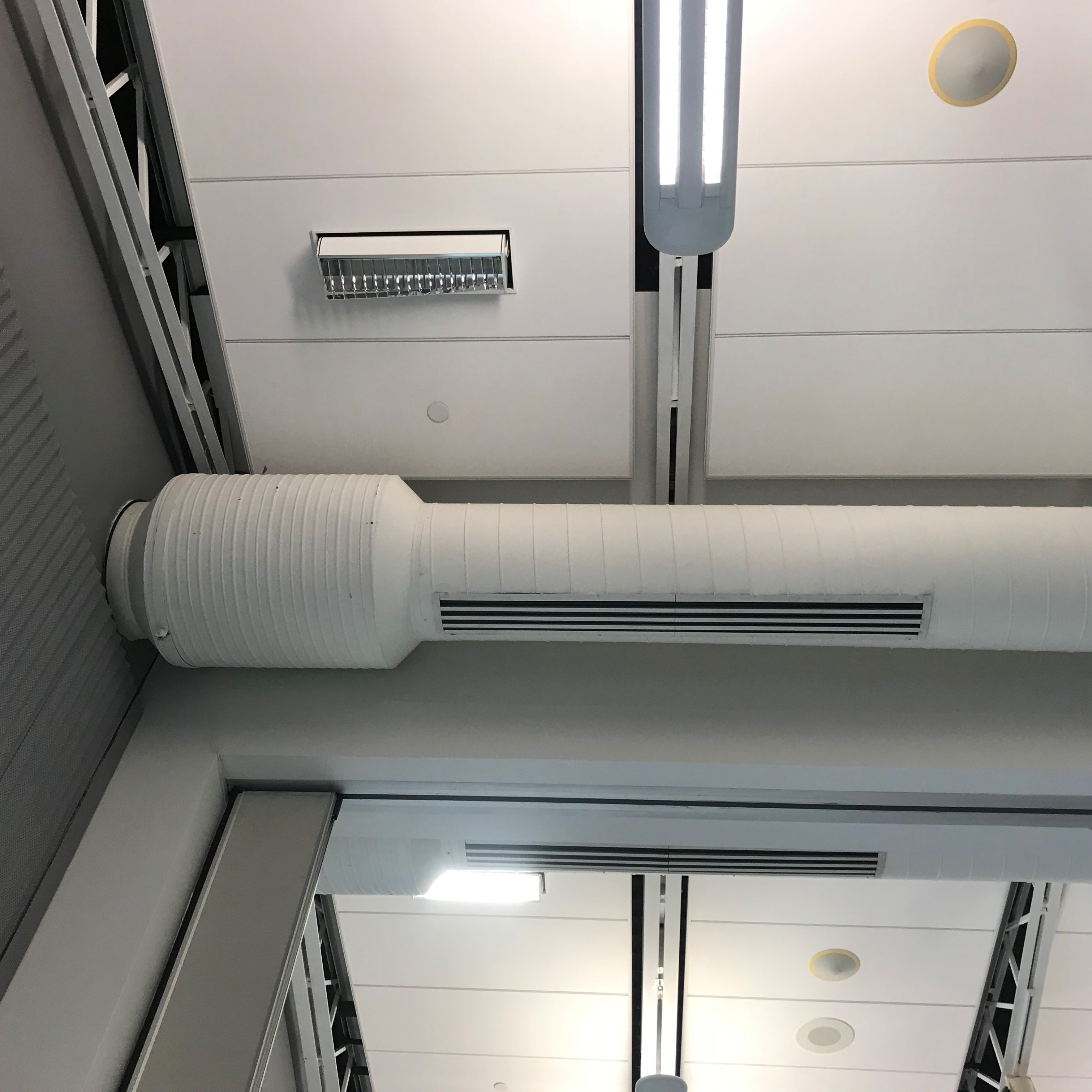 A typical installation of a circular sound trap. The outer diameter of the sound trap is larger than the surrounding ductwork, resulting in a visual bulge